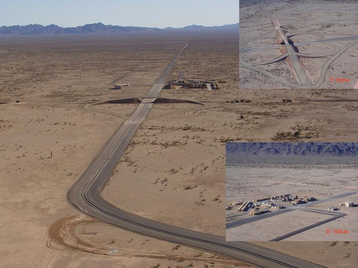 National Counterterrorism / Counterinsurgency Integrated Test and Evaluation cite at the Yuma Test Center, Yuma Proving Ground